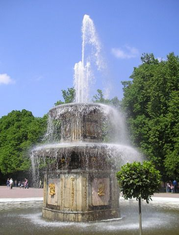 One of the Rimsky ('Roman') fountains in Peterhof